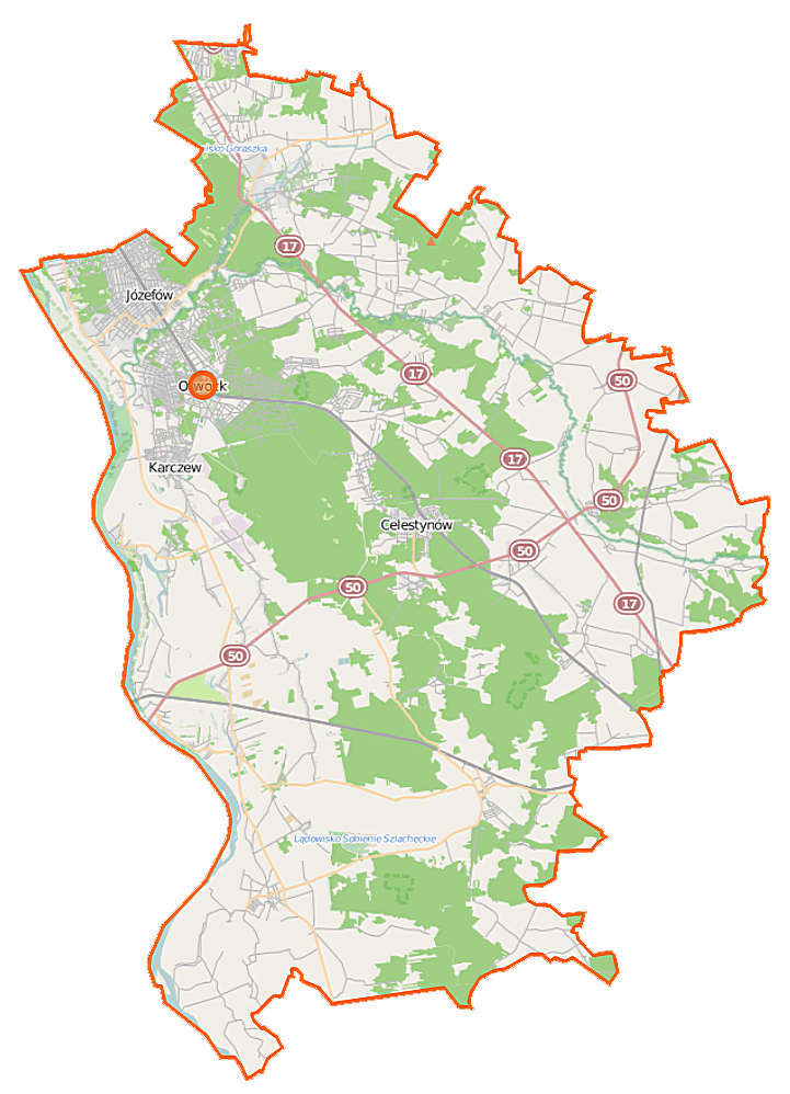 Map of Powiat otwocki, Poland This map of Powiat otwocki was created from OpenStreetMap project data, collected by the community. This map may be incomplete, and may contain errors. Don't rely solely on it for navigation. Border coordinates52.237121.1542←↕→21.590951.8646